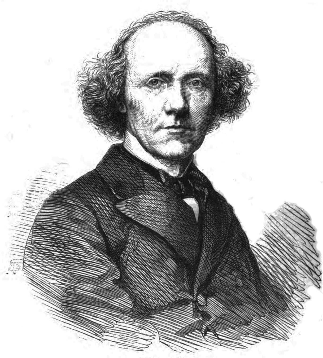 Portrait of the Scottish politician, merchant and art collector William Graham (1817–1885).